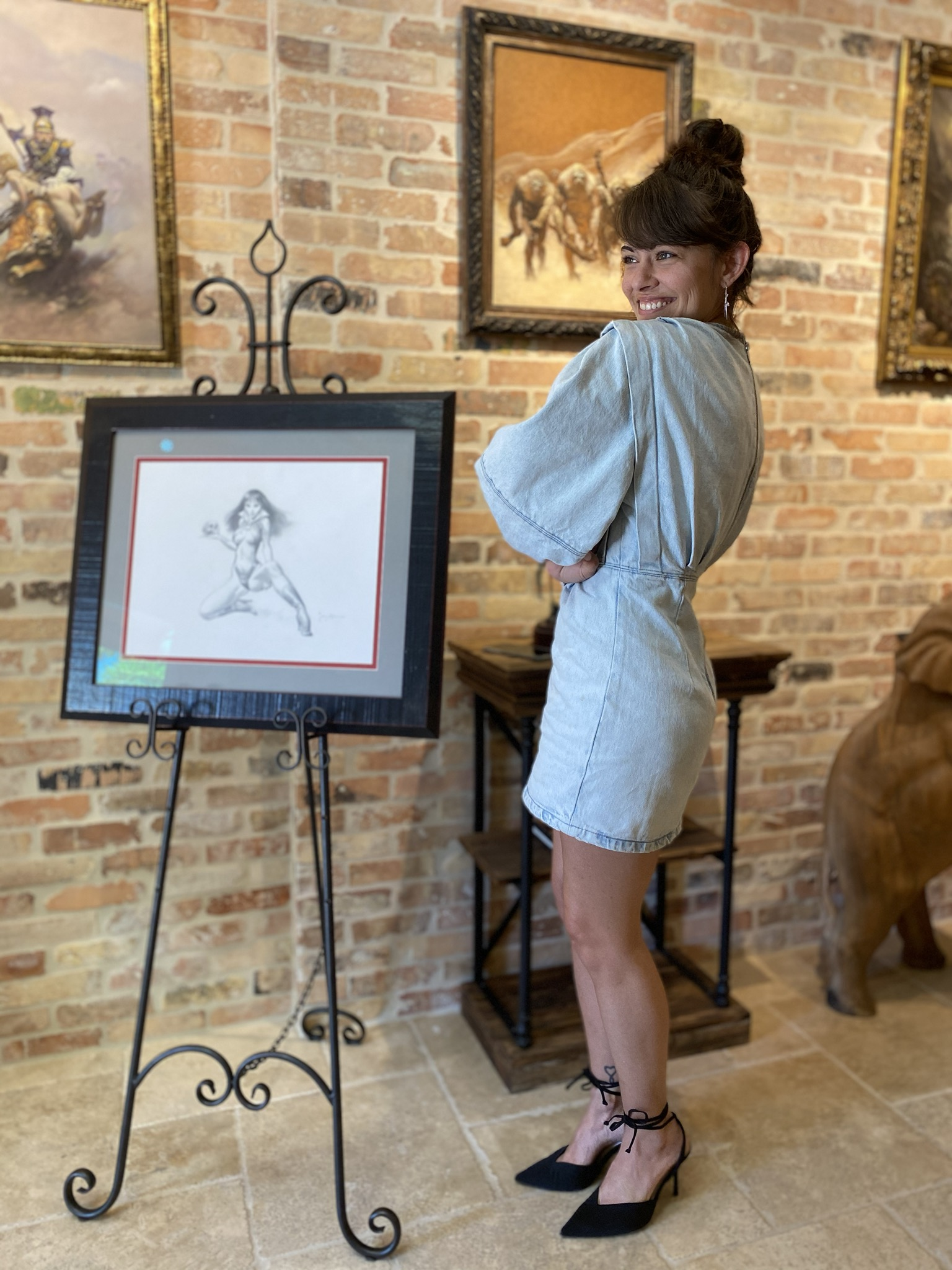 Franks Granddaughter Sara Frazetta poses in front of original Vampirella artwork by Frank Frazetta in the Frazetta Art Museum in Boca Grande, Florida.